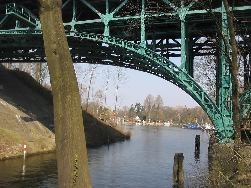 The Stößensee is a lake in Berlin-Wilhelmstadt (Borough Spandau) and Berlin-Westend (Borough Charlottenburg-Wilmersdorf), Germany. The lake is a bay of the river Havel.